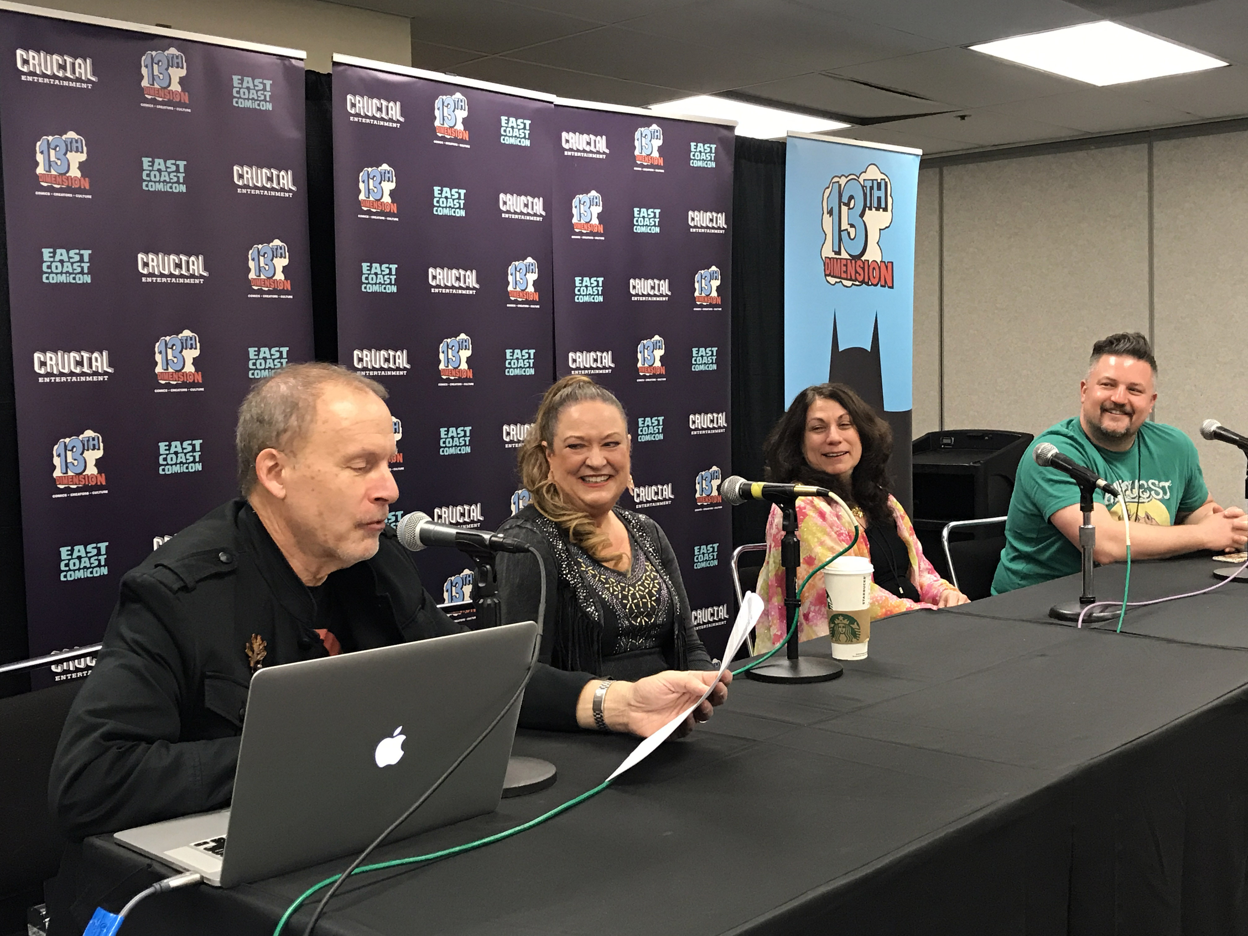 Panel discussion dedicated to the comics series Elfquest at the Meadowlands Exposition Center in Secaucus, New Jersey on Sunday, April 29, 2018, Day 3 of the East Coast Comicon. From left to right: Elfquest creators Richard Pini and Wendy Pini, Elfquest writer Joellyn Auklandus, and David Mizejewski, host of an Elfquest podcast. This photo was created by Luigi Novi. It is not in the public domain, and use of this file outside of the licensing terms is a copyright violation.